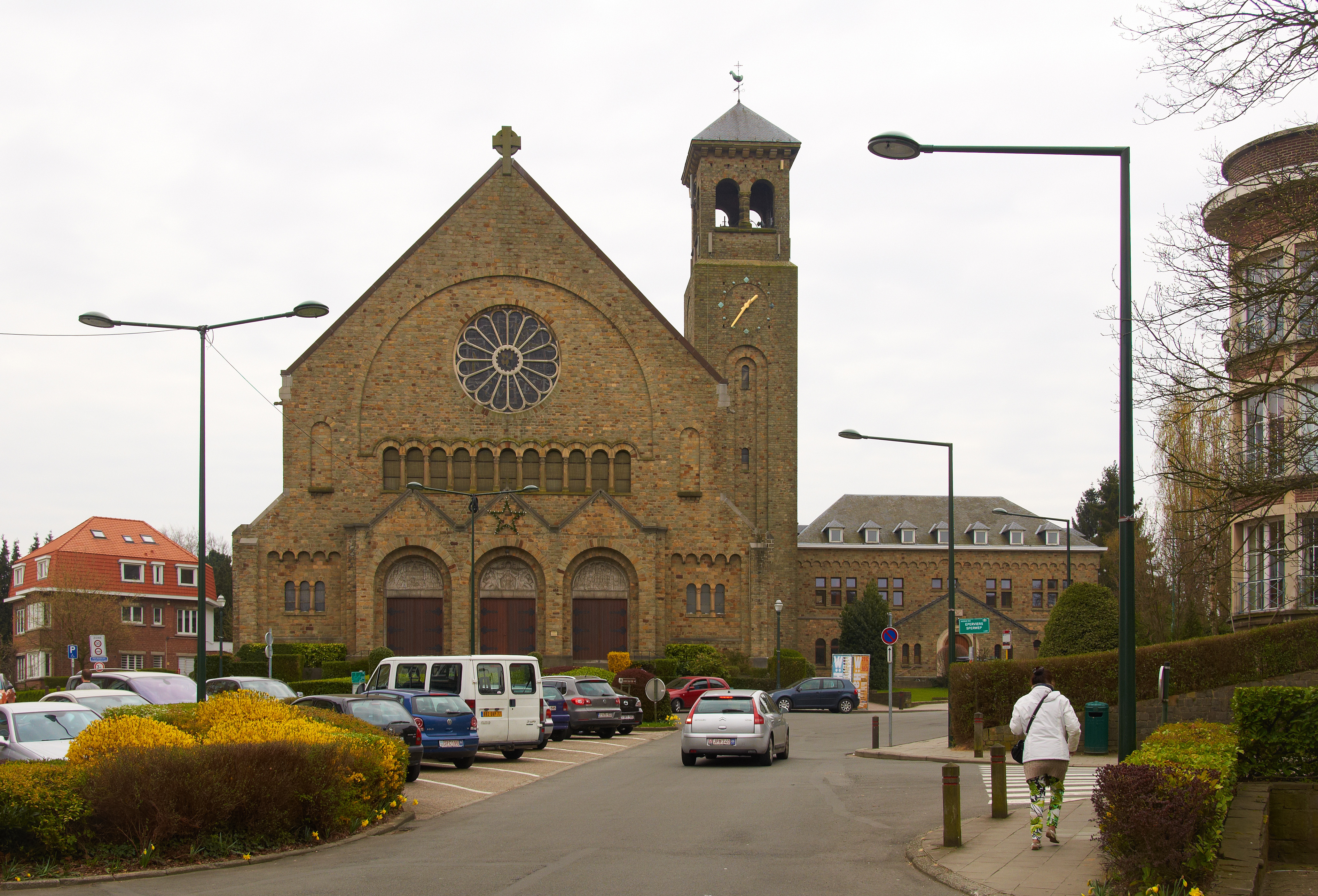 Church "Notre-Dame des Grâces" / "Onze-Lieve-Vrouw Van Genade" in Woluwe-Saint-Pierre, Belgium